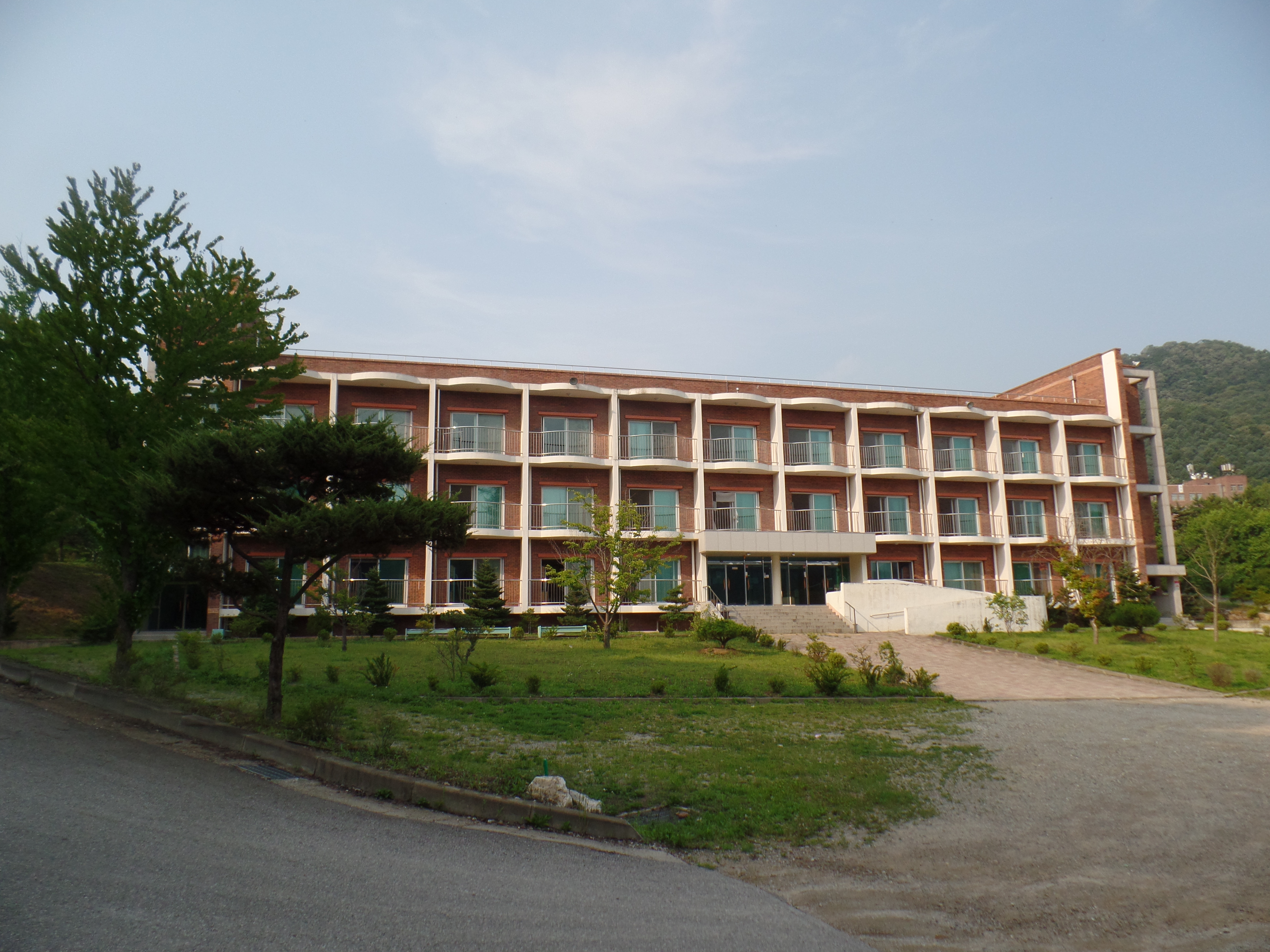 Songgok College Dormitory